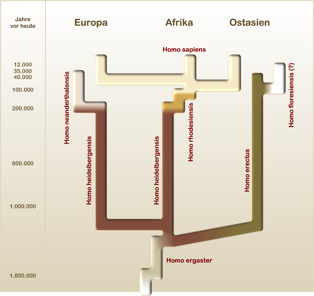 Homo extreme splitter Version including german descriptions